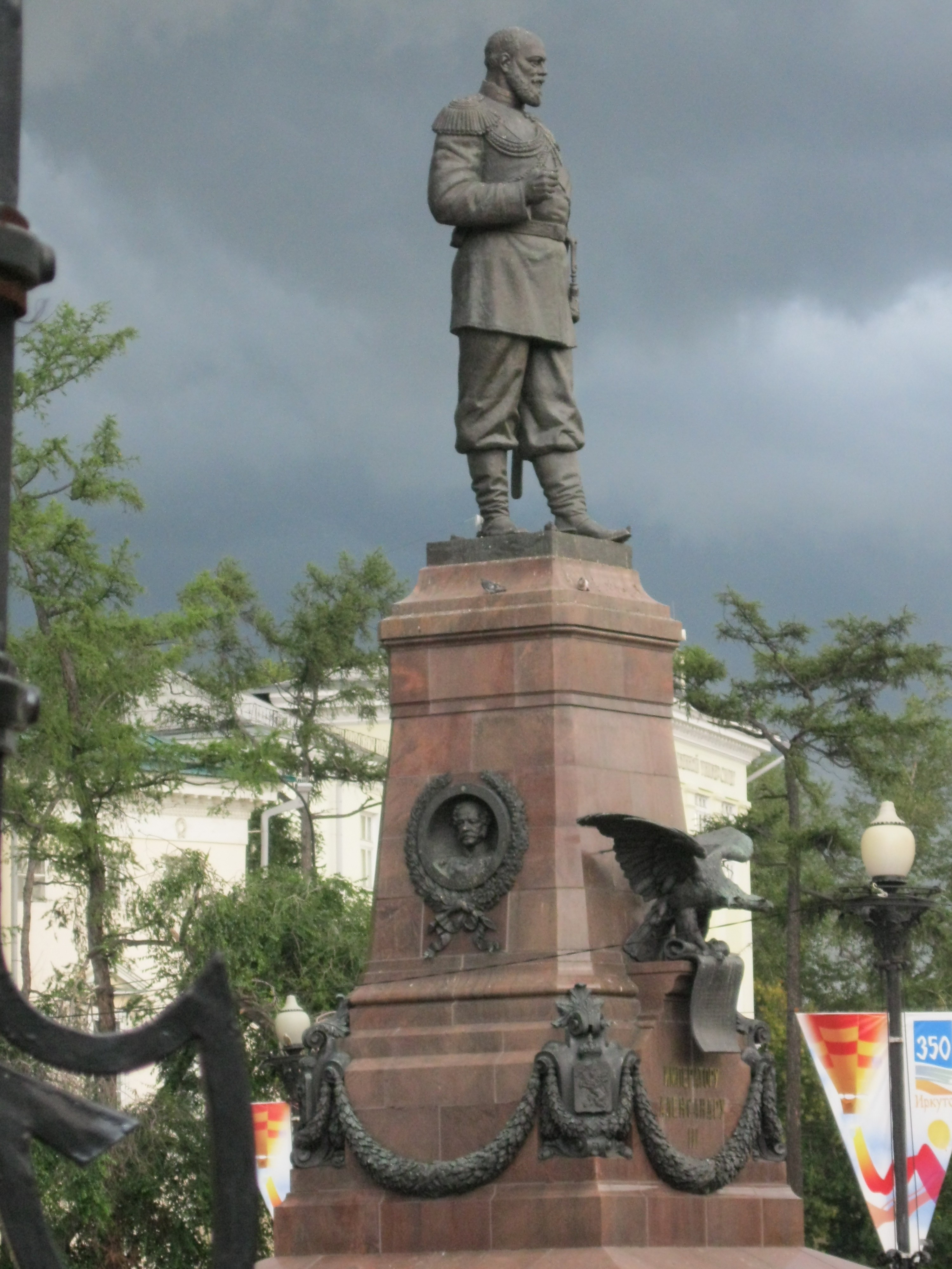 Alexander III monument (Irkutsk)